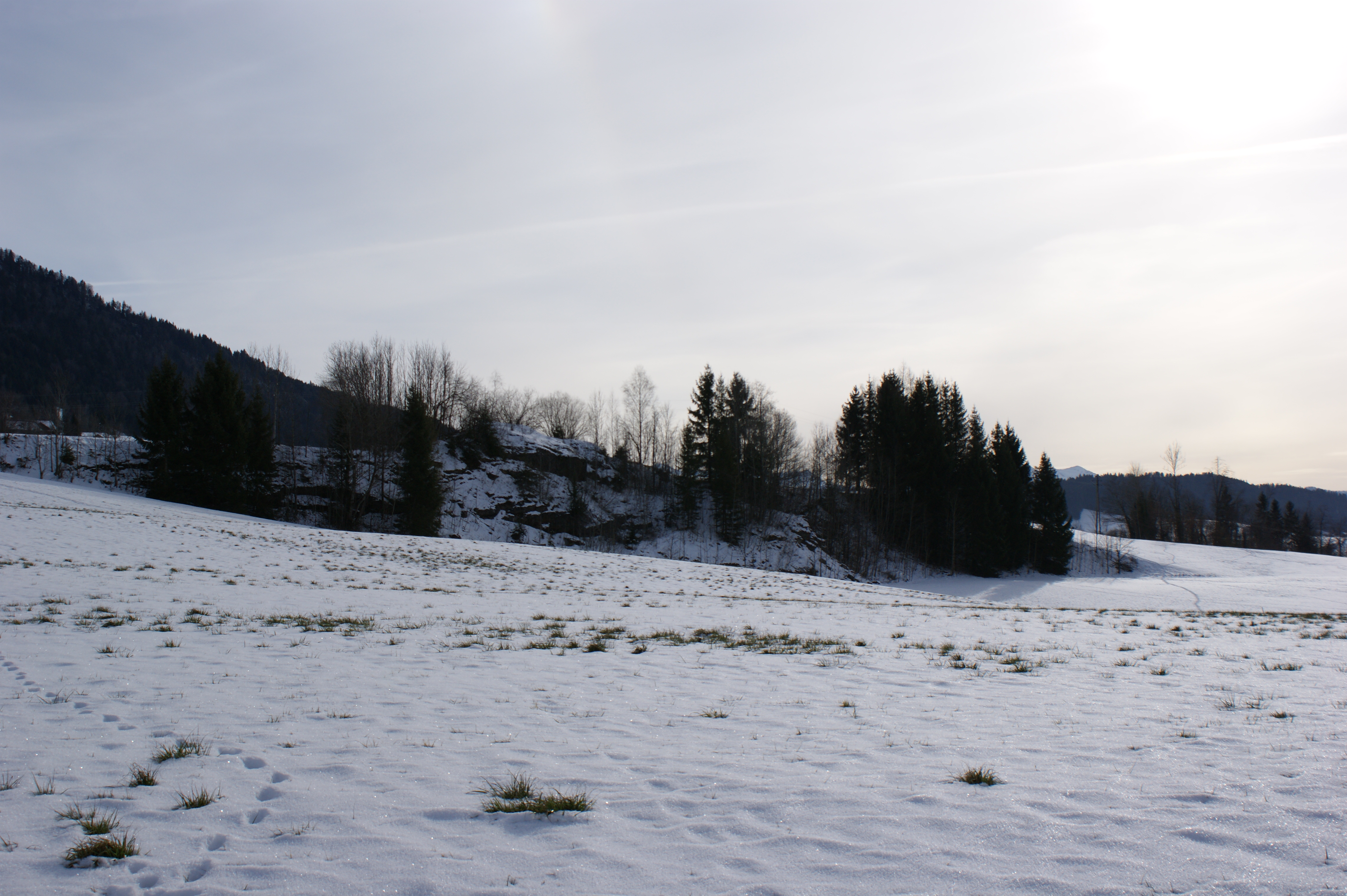 Natural monument "Gletscherschliff" (meaning: Glacial striation, Corrasion, Glacially abraded rocks) in Riefensberg, Vorarlberg, Austria.